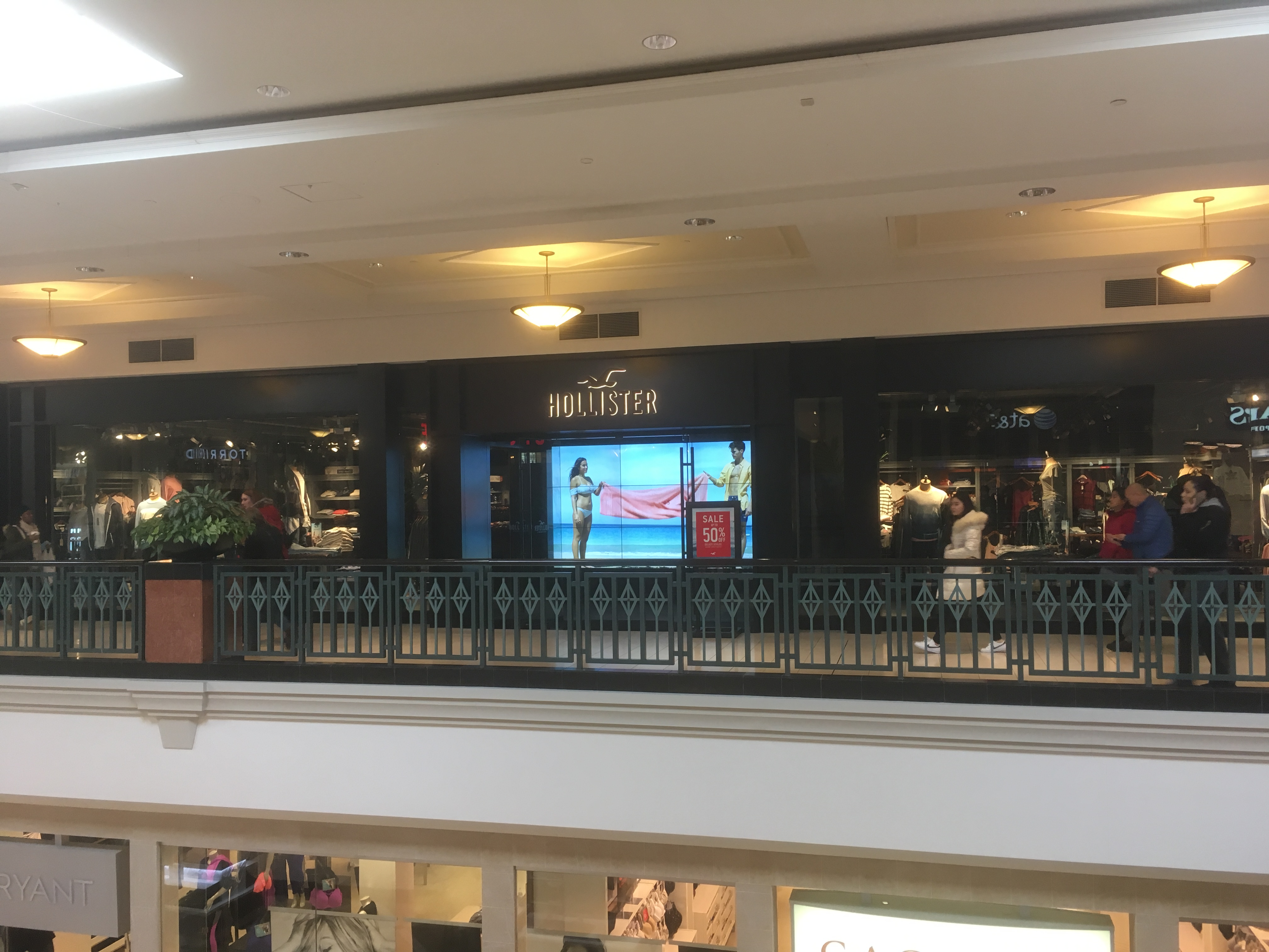 The Hollister Co. store at the King of Prussia Mall in King of Prussia, Pennsylvania